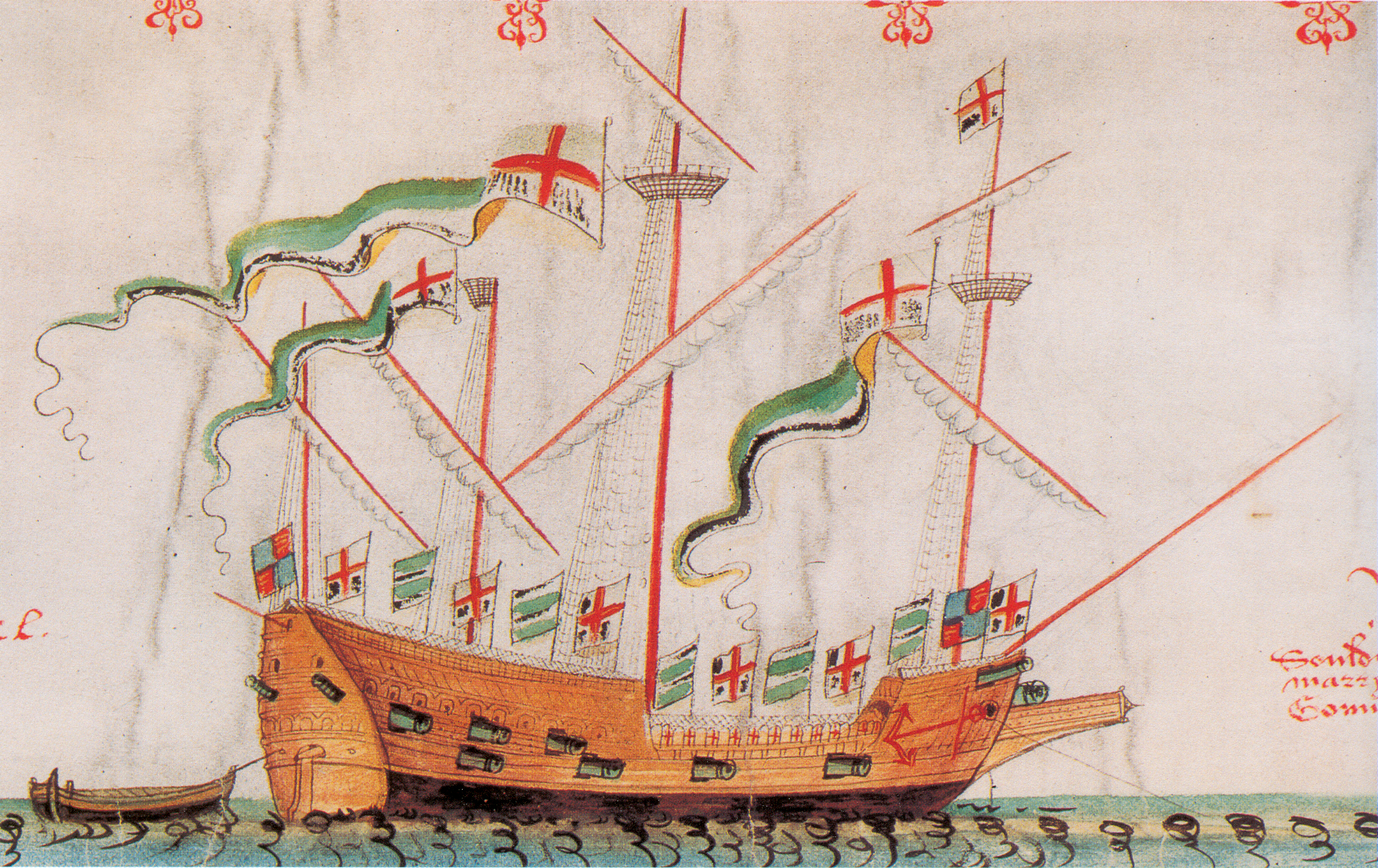 Illustration of the galleass Anne Gallant. Notification about possible deletion Cathsuth (talk) 16:03, 9 February 2017 (UTC)